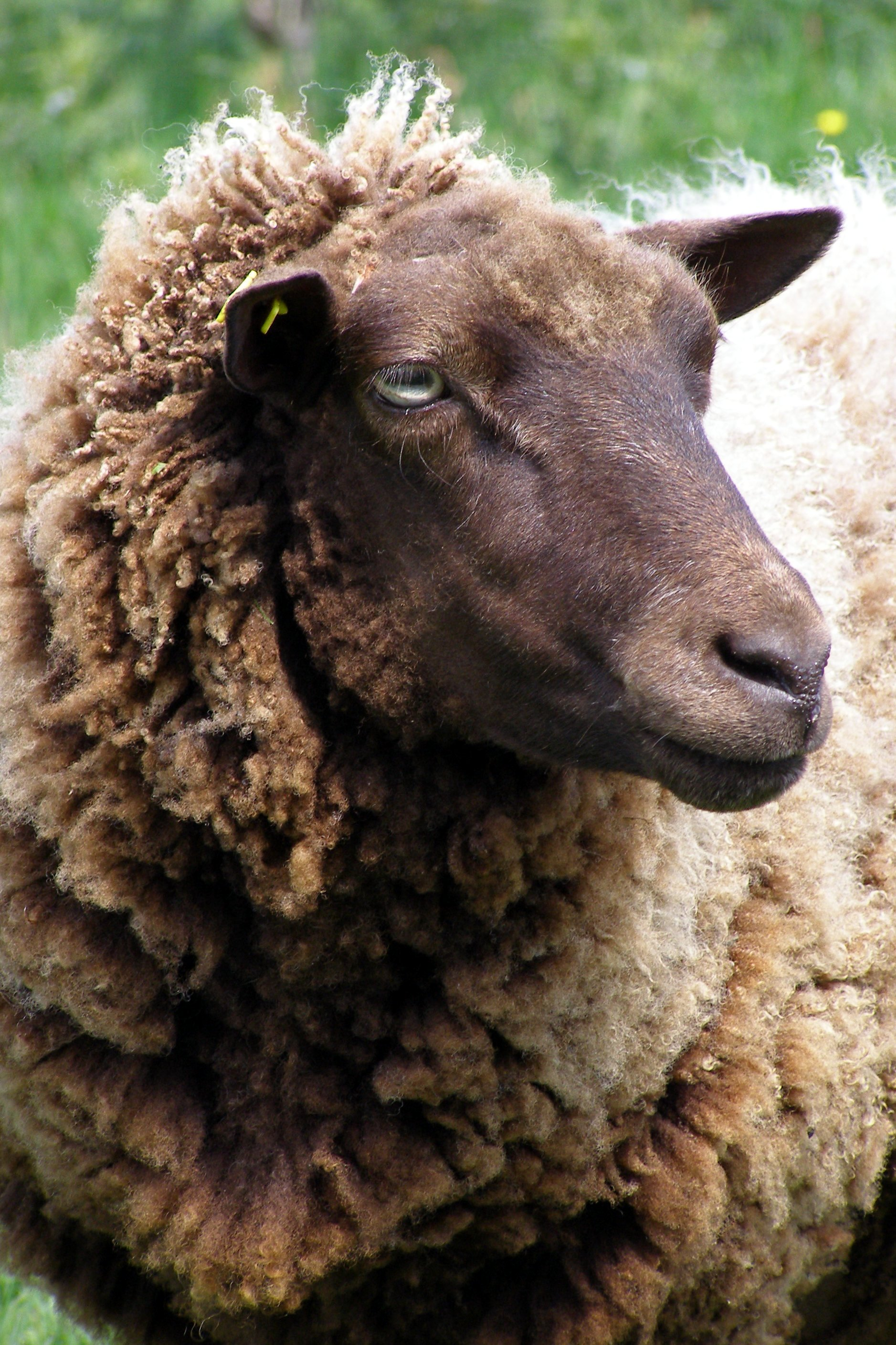 A woolly portrait. Probably a Shetland ewe.